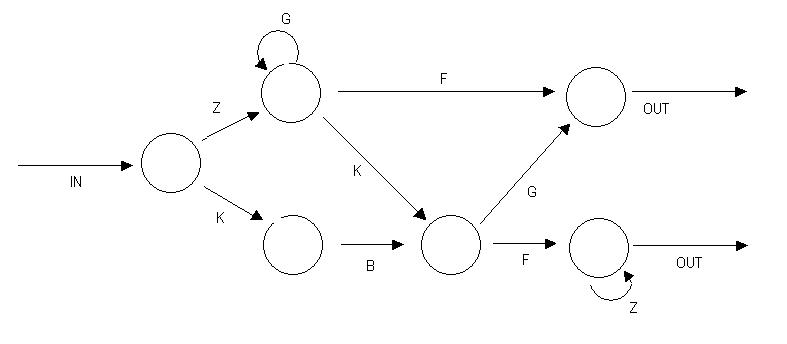 An example of a artificial grammar used to create letter strings.